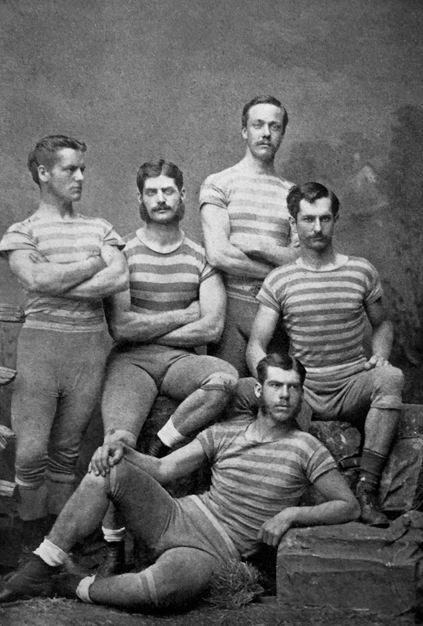 Columbia College Crew, Winners of the Visitors' Challenge Cup, Henley Royal Regatta 1878. From left to right: Charles Eldridge (spare), Edward E. Sage (bow), Henry G. Ridabock (No. 3, laying in front), Cyrus Edson (No. 2, standing in back) and Jasper T. Goodwin (stroke). Winners